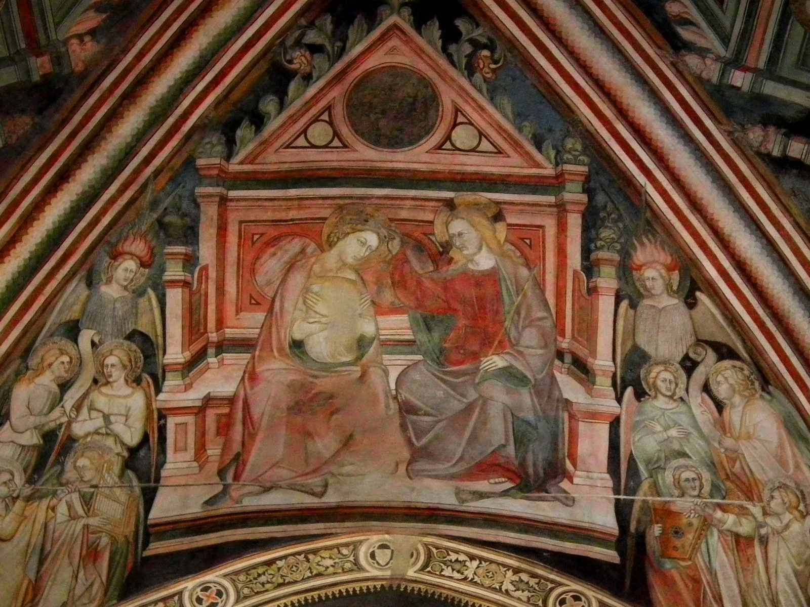 St Stephan Oratory, Lentate sul Seveso Native nameOratorio di Santo StefanoLocationLentate sul Seveso, Lombardy, ItalyCoordinates45° 40′ 42.45″ N, 9° 07′ 19.65″ E Established1369Web page control : Q3884882 VIAF: 132917749 LCCN: no2008167329 GND: 7615023-9 WorldCat institution QS:P195,Q3884882